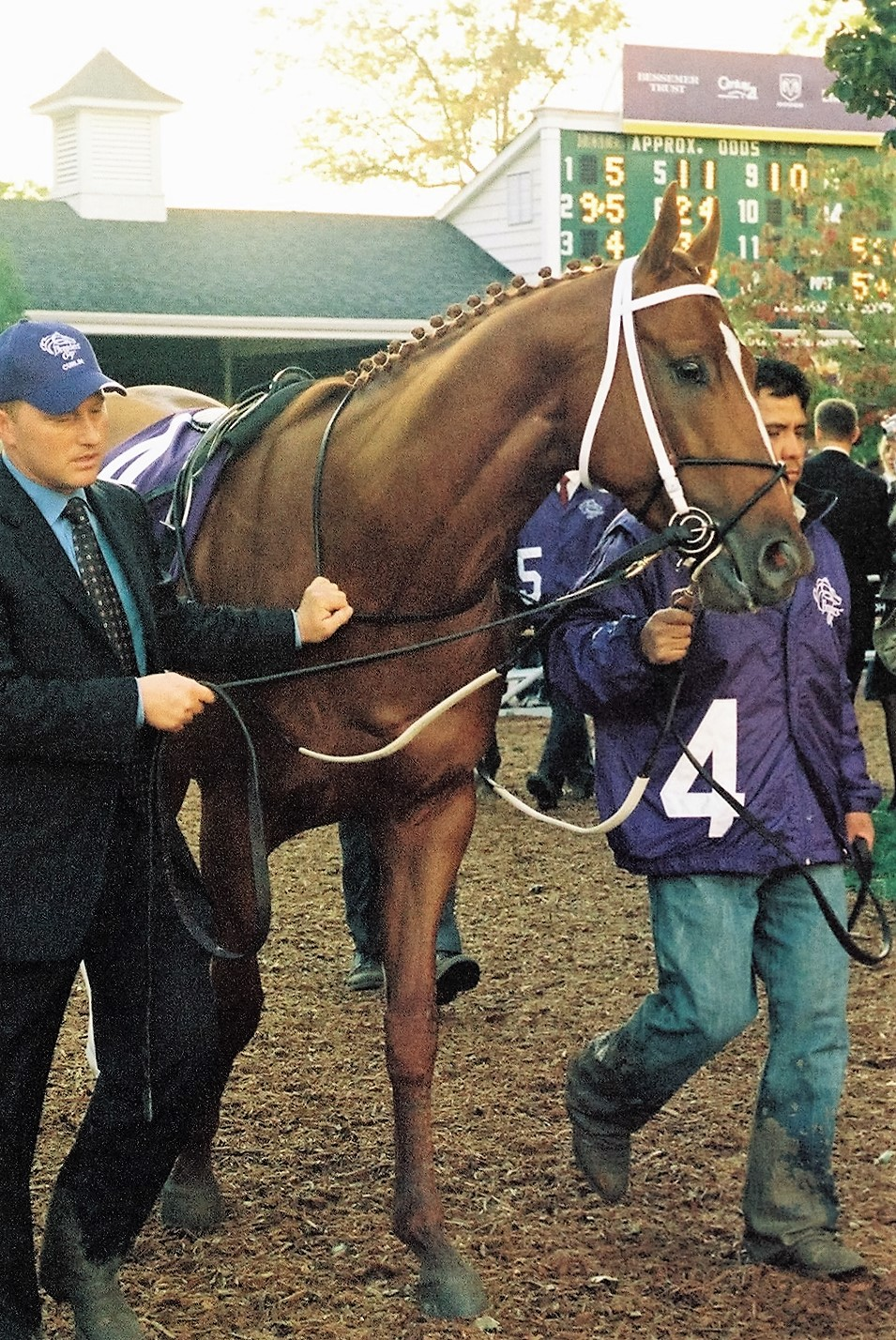 Curlin before the 2007 Breeders' Cup Classic at Monmouth Park